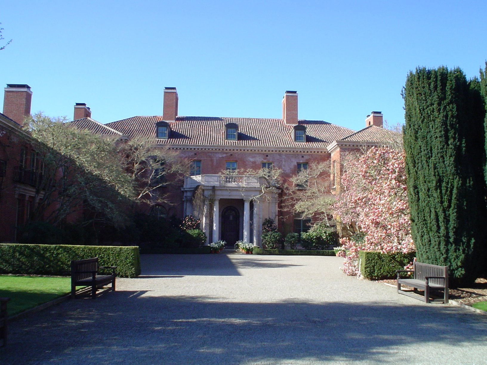 Filoli